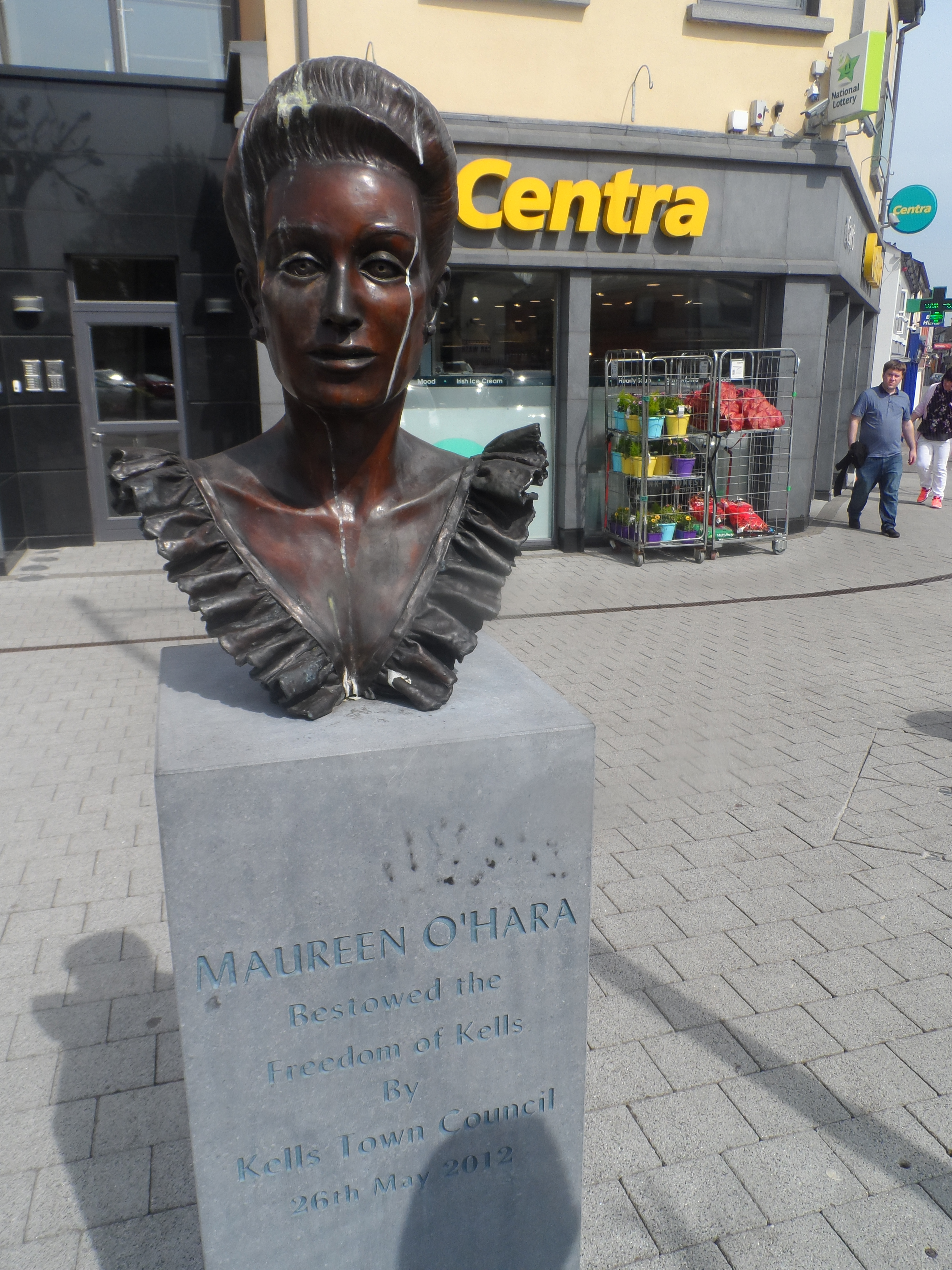 Maureen O'Hara bust